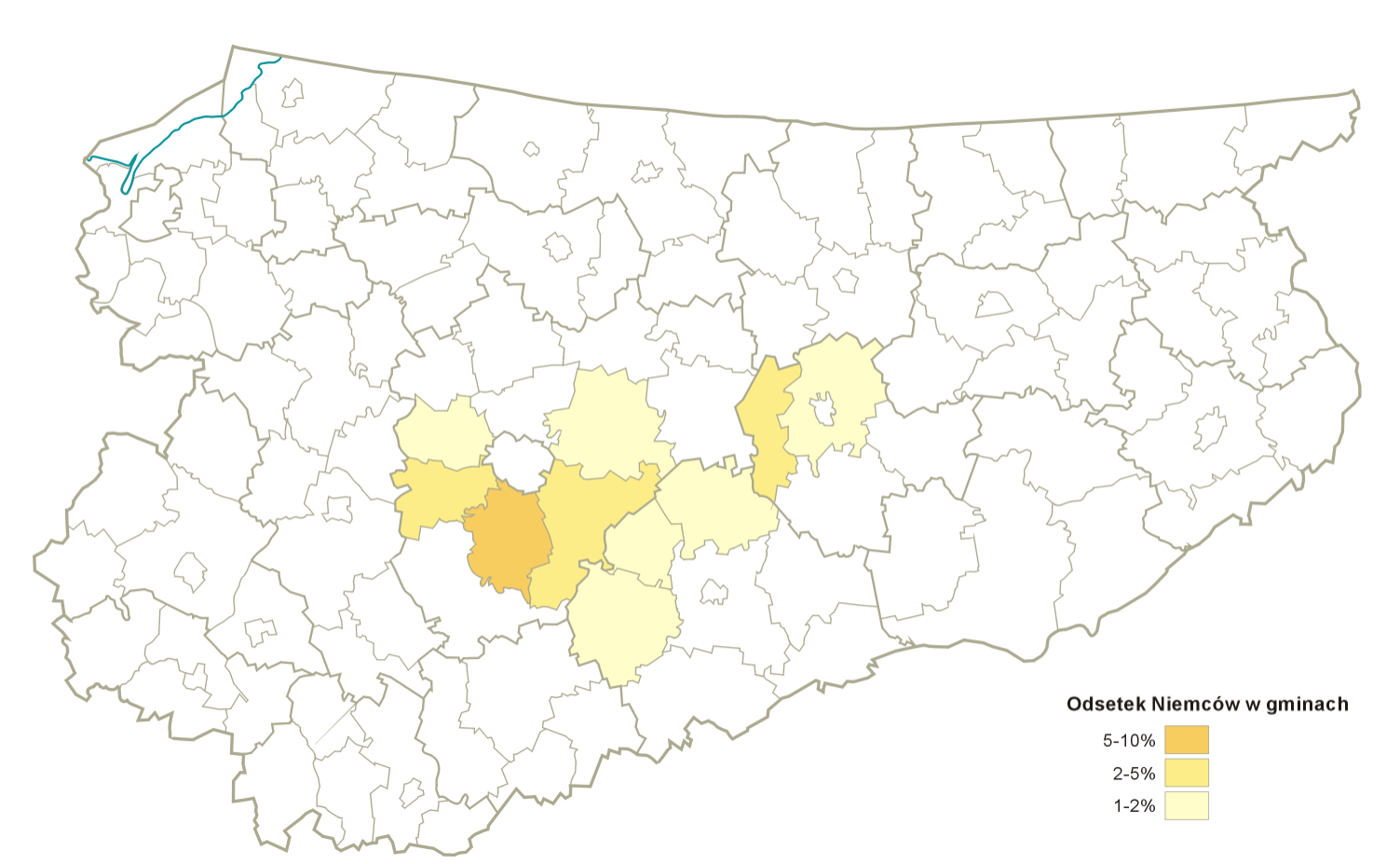 German nationality in communes as declared in the Polish national census in 2002